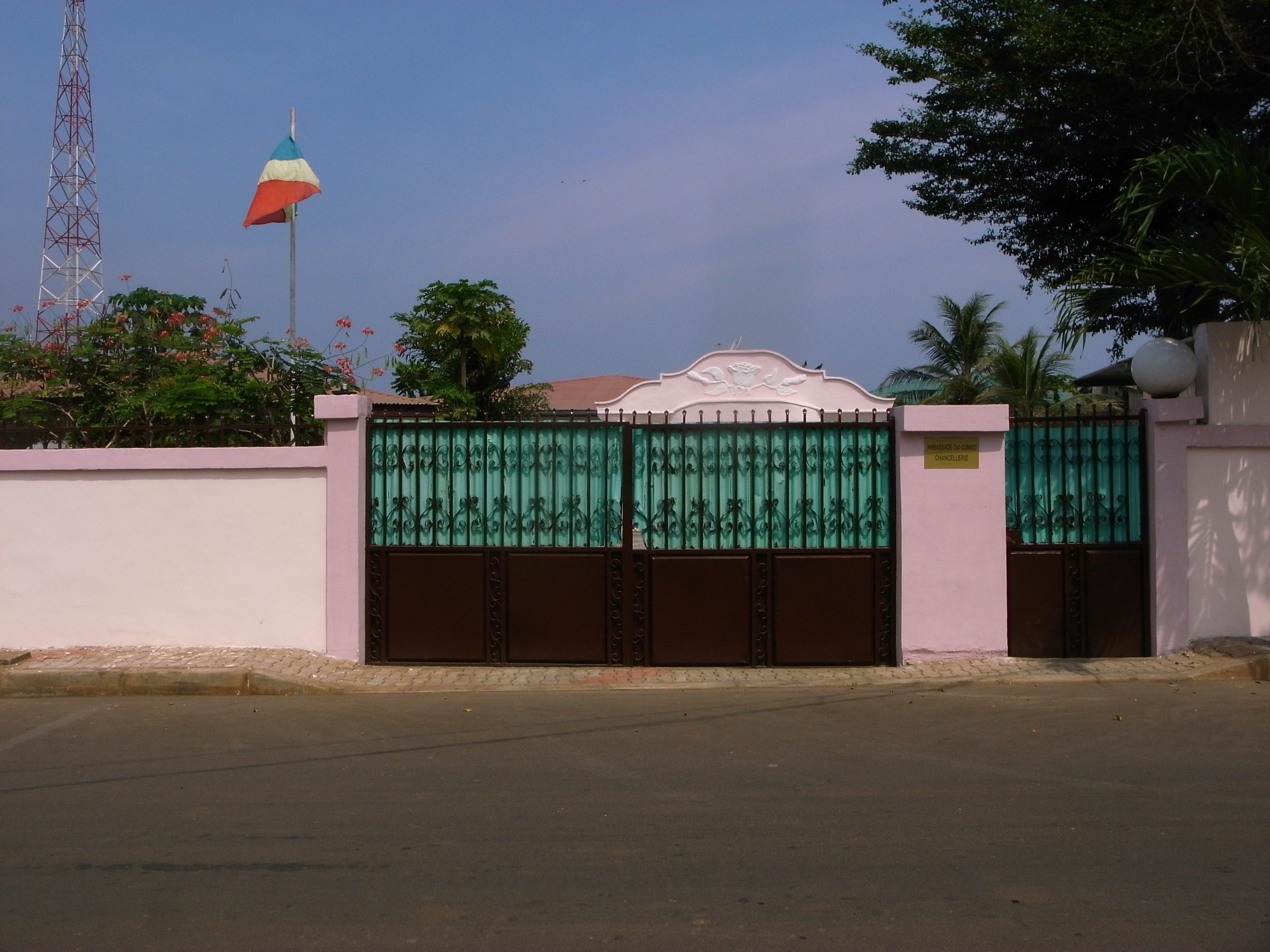 Frontal view of the Embassy of Congo in Malabo, Equatorial Guinea